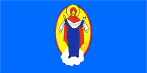 Flag of Marjina Horka